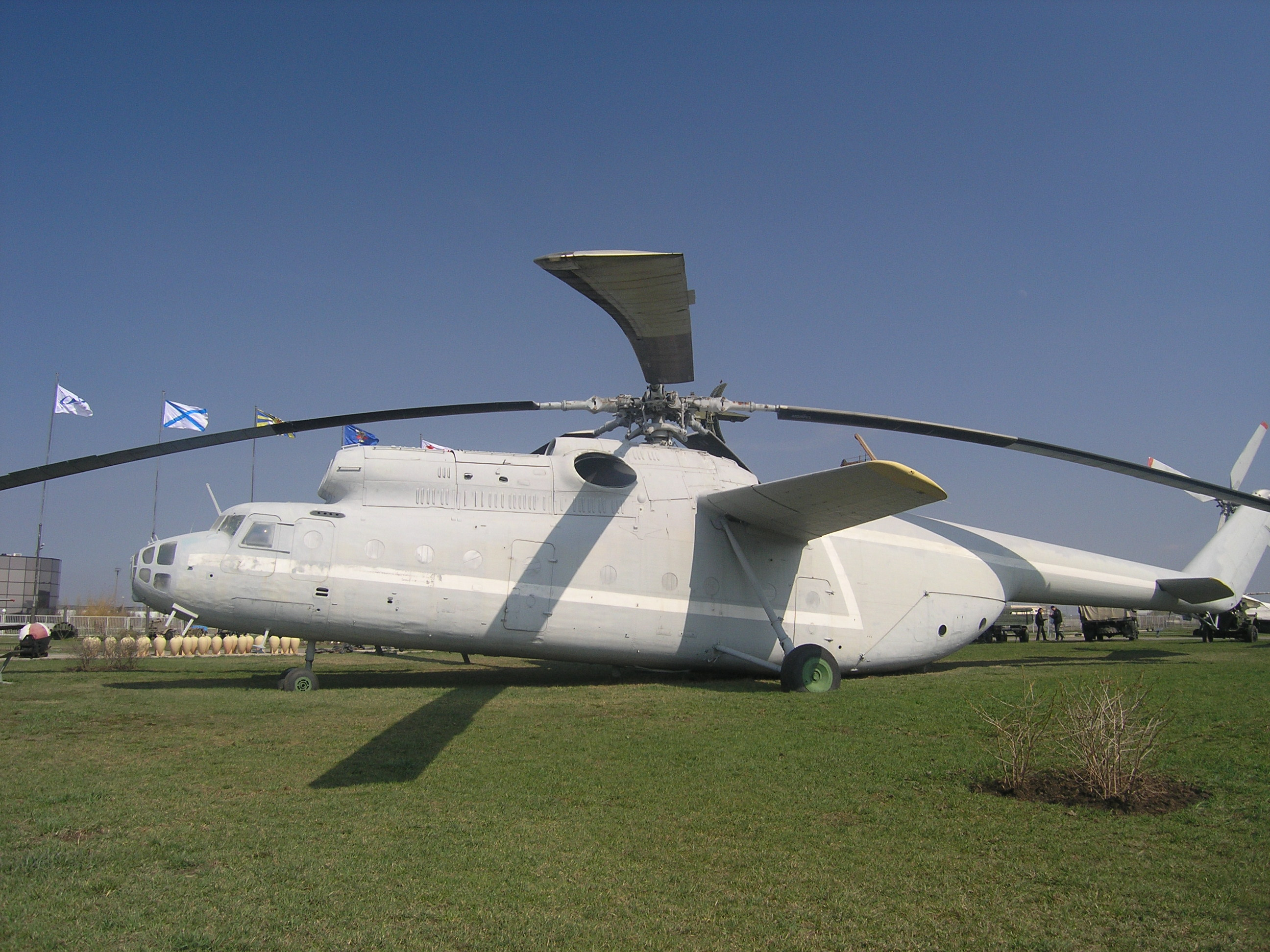 Mi-6, technical museum, Togliatti, Russia